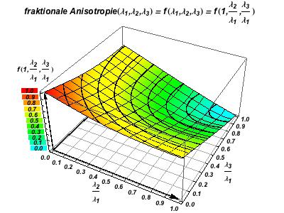 Fractional Anisotropy as a function of the Eigenvalues of a Diffusion Tensor